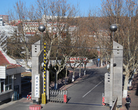 Liaoning Nornmal University (North Campus), Dalian, Liaoning, China